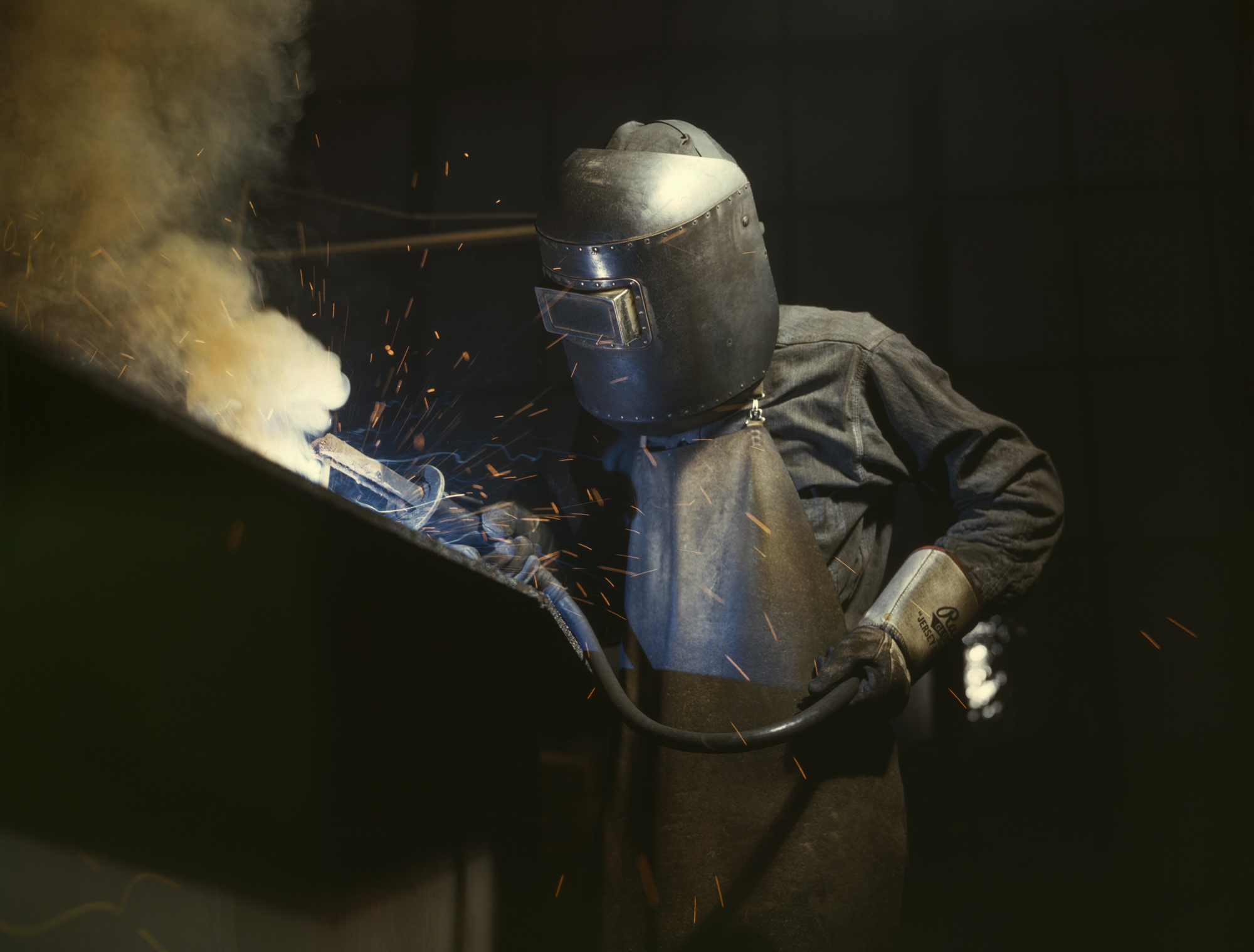 Welder making boilers for a ship, Combustion Engineering Co., Chattanooga, Tenn. This is a retouched picture, which means that it has been digitally altered from its original version. Modifications: scratches and dust removed. The original can be viewed here: AlfredPalmerwelder.jpg: . Modifications made by Durova.